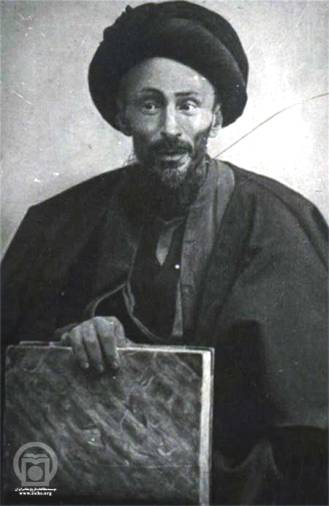 Sayyid Jamal al-Din Va'iz- Persian costitutionalist